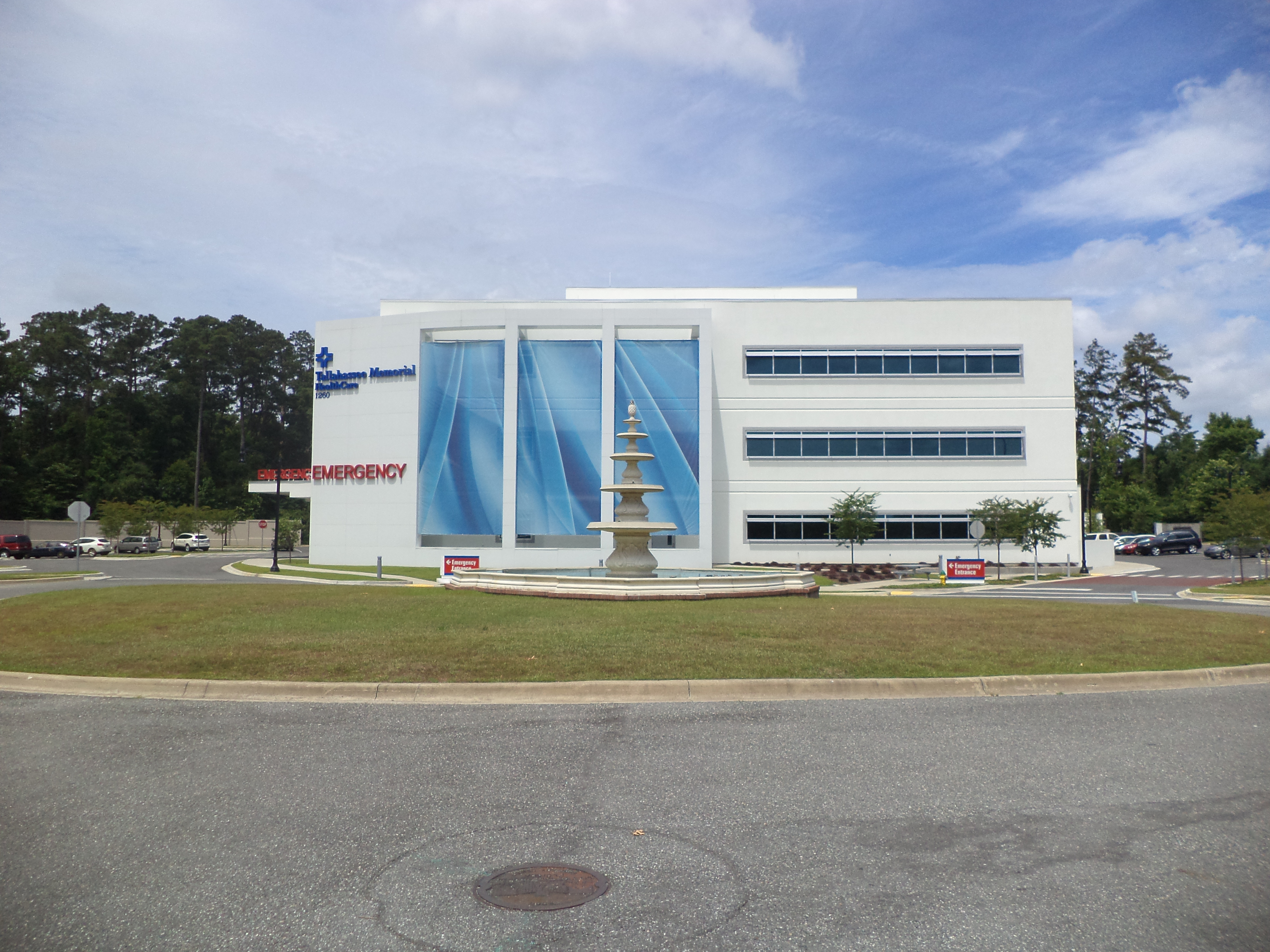 Tallahassee Memorial Emergency Center - Northeast, 1260 Metropolitan Blvd, Tallahassee, Leon County, Florida